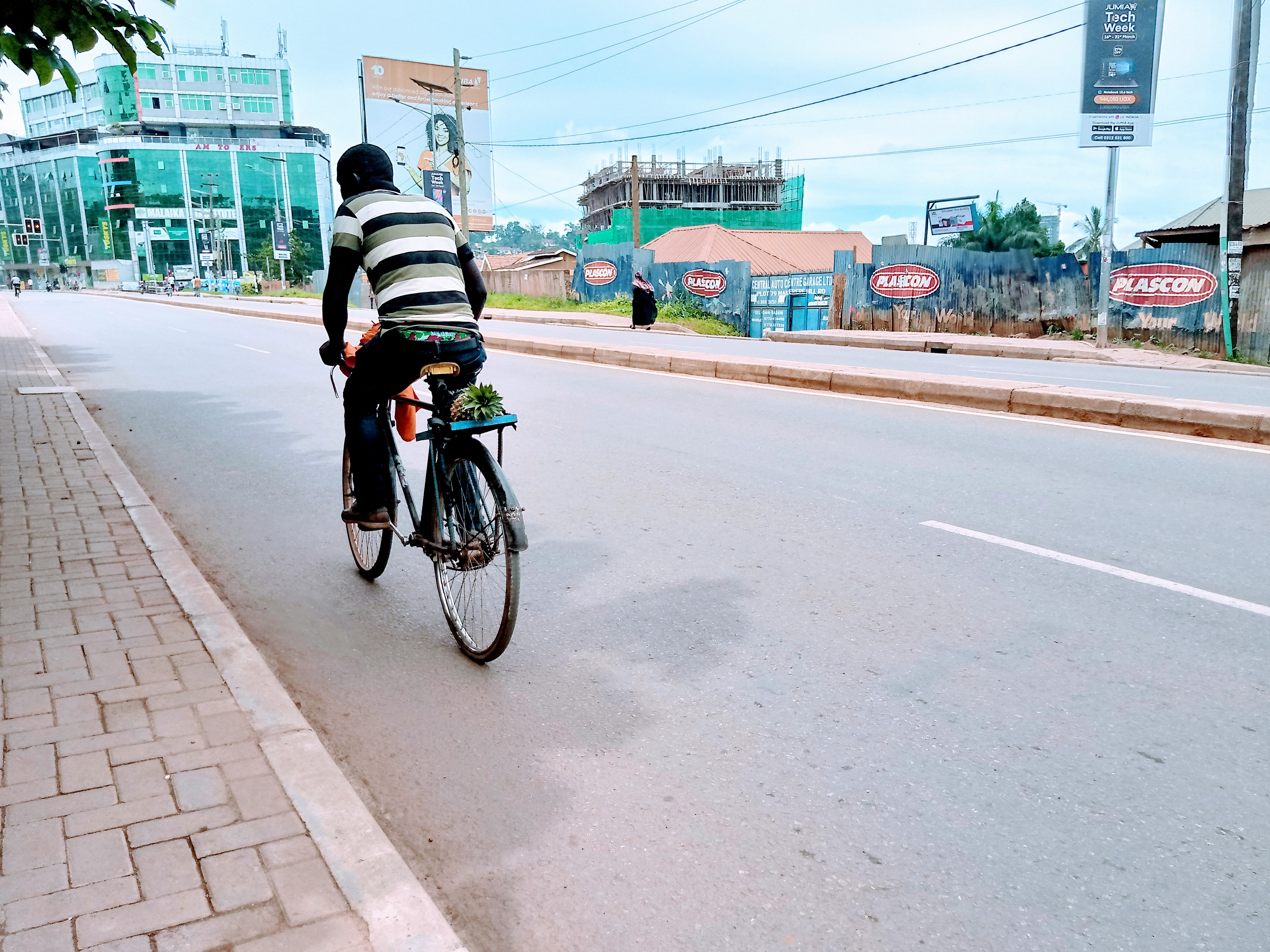 Exempted bicycle moving during lockdown due to covid 19 in Uganda This is an image with the theme "Africa on the Move or Transport" from: Uganda